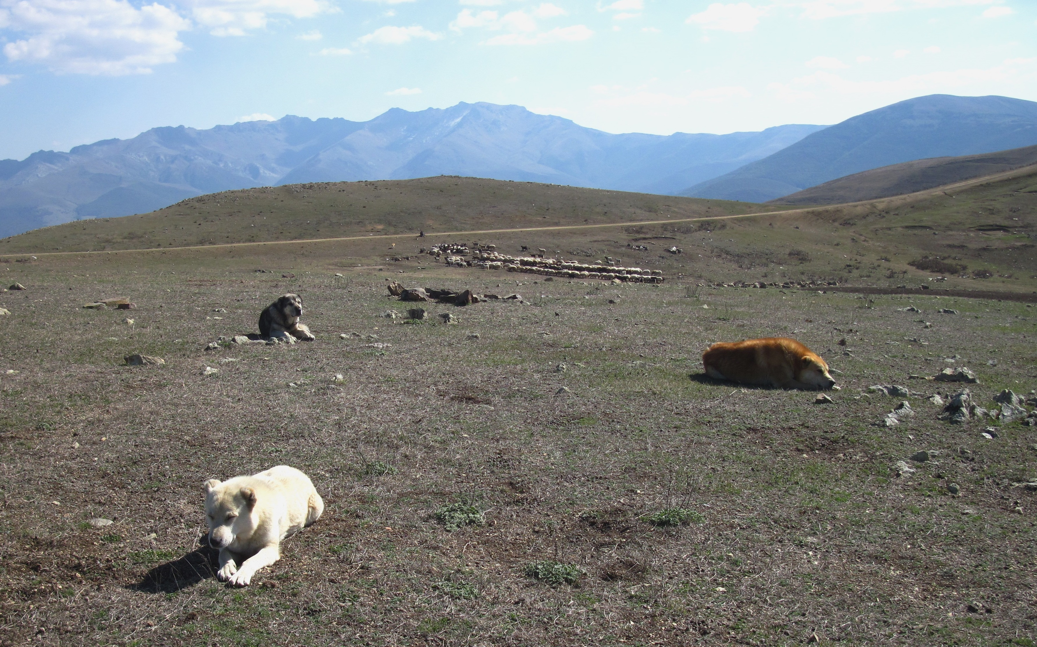 For Arasbaran wiki-page.